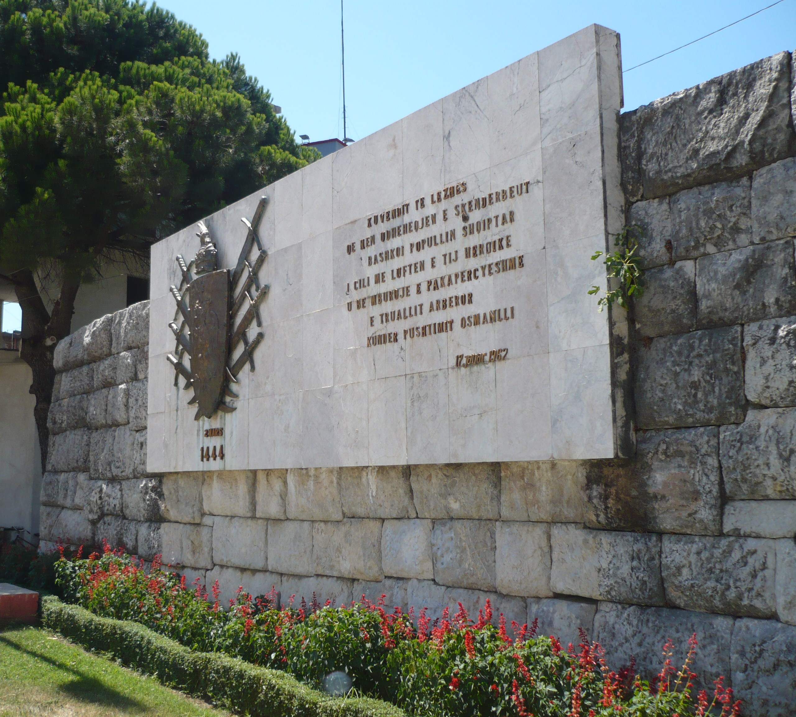 Plate commemorating the League of Lezhë on Besëlidhja Square in Lezhë, Albania